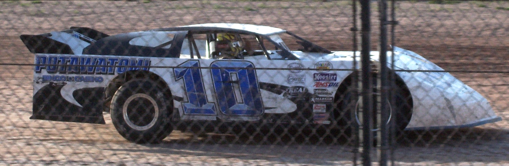 The hall of famer was inducted in the National Dirt Late Model Hall of Fame last year. He won this heat.